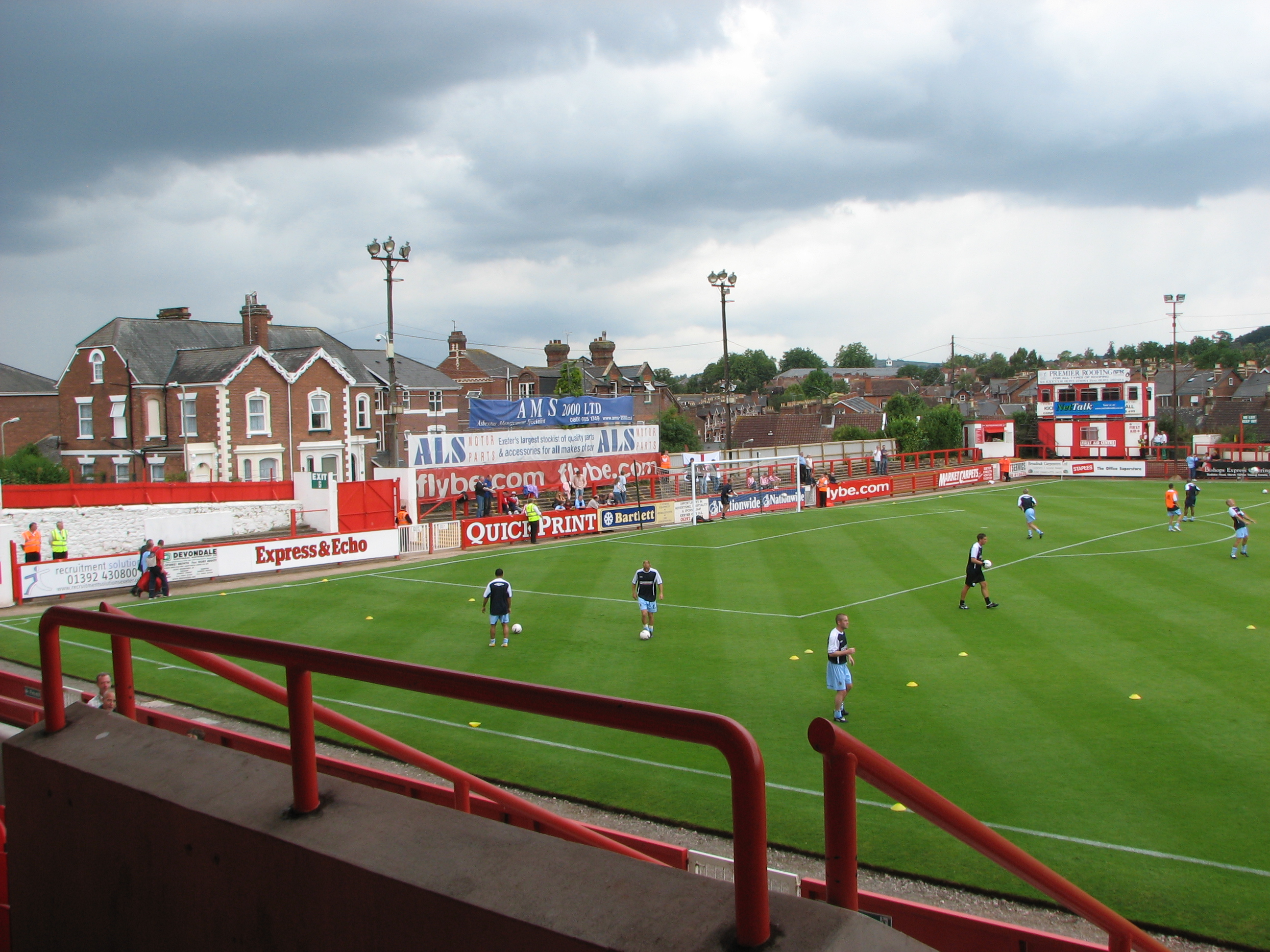 The Away Terrace at St James Park, home of Exeter City Football Club Photo taken by User:Rowan Massey